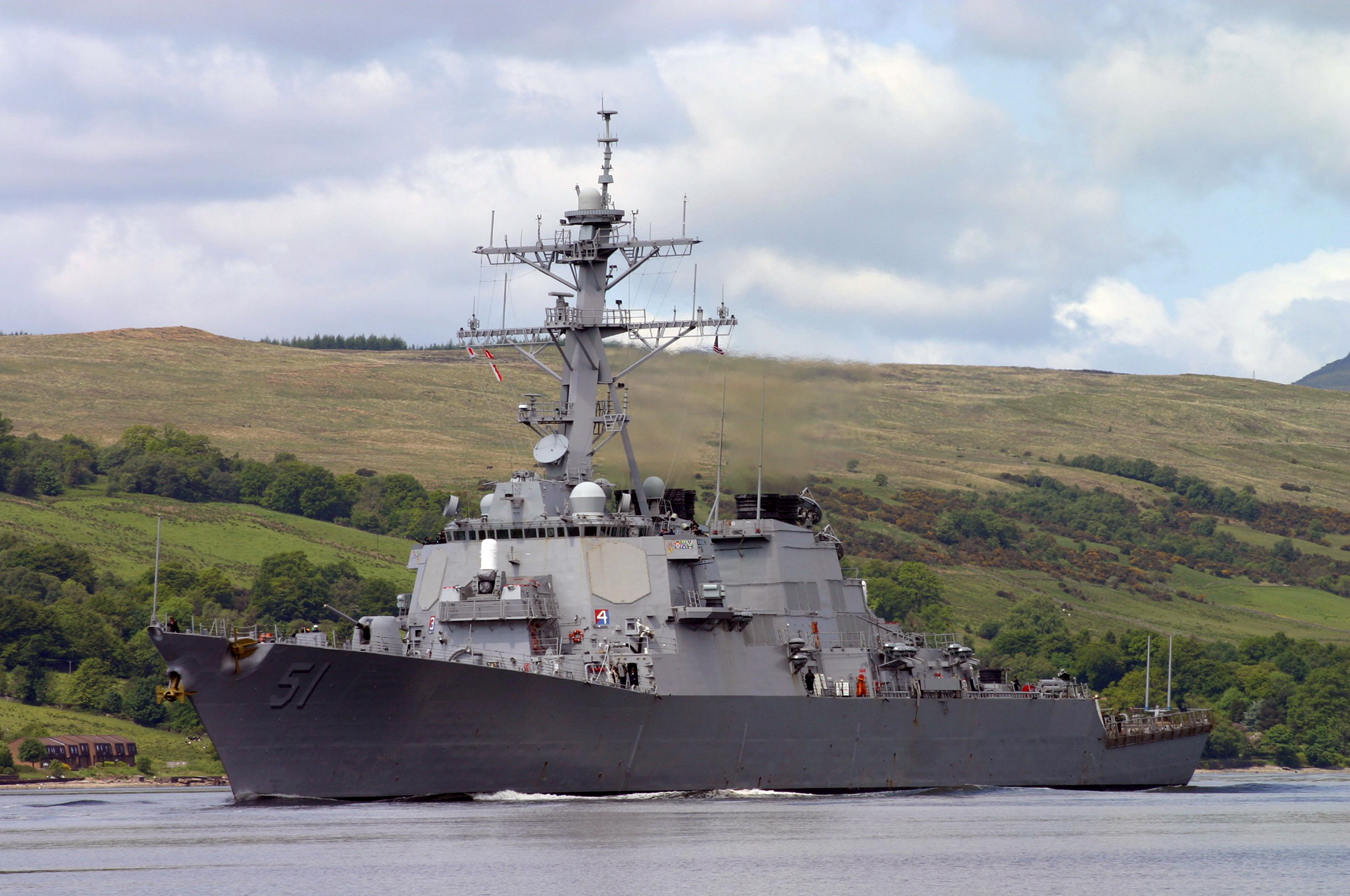 050606-N-0000C-001 Faslane, Scotland (June 6, 2005) – The guided missile destroyer USS Arleigh Burke (DDG 51) departs Clyde Naval Base in Faslane, Scotland. Arleigh Burke is currently participating in the Joint Maritime Course, a multinational NATO exercise being conducted off the coast of Scotland. U.S. Navy photo by Mr. Dave Cullen (RELEASED)